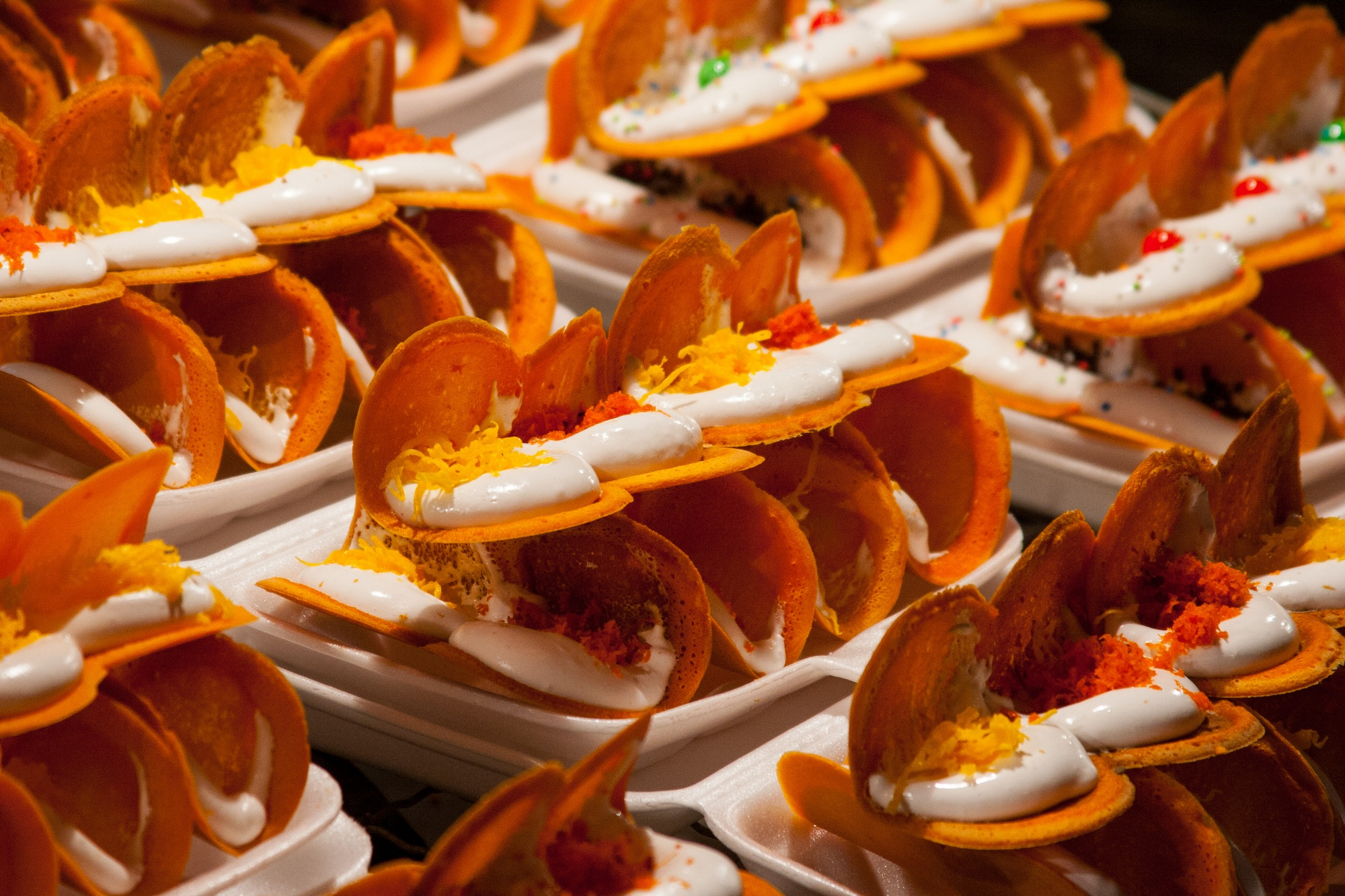 Thai dessert sold at a night market in Krabi province, Thailand